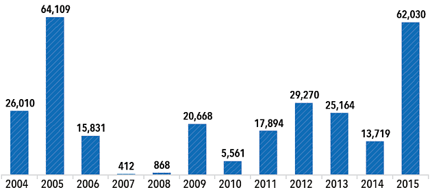 Official Israeli data for 2015 released in May 2016 indicate a sharp increase in the review and ratification of areas of the West Bank which had been declared as “state land”, mainly during the 1980s.